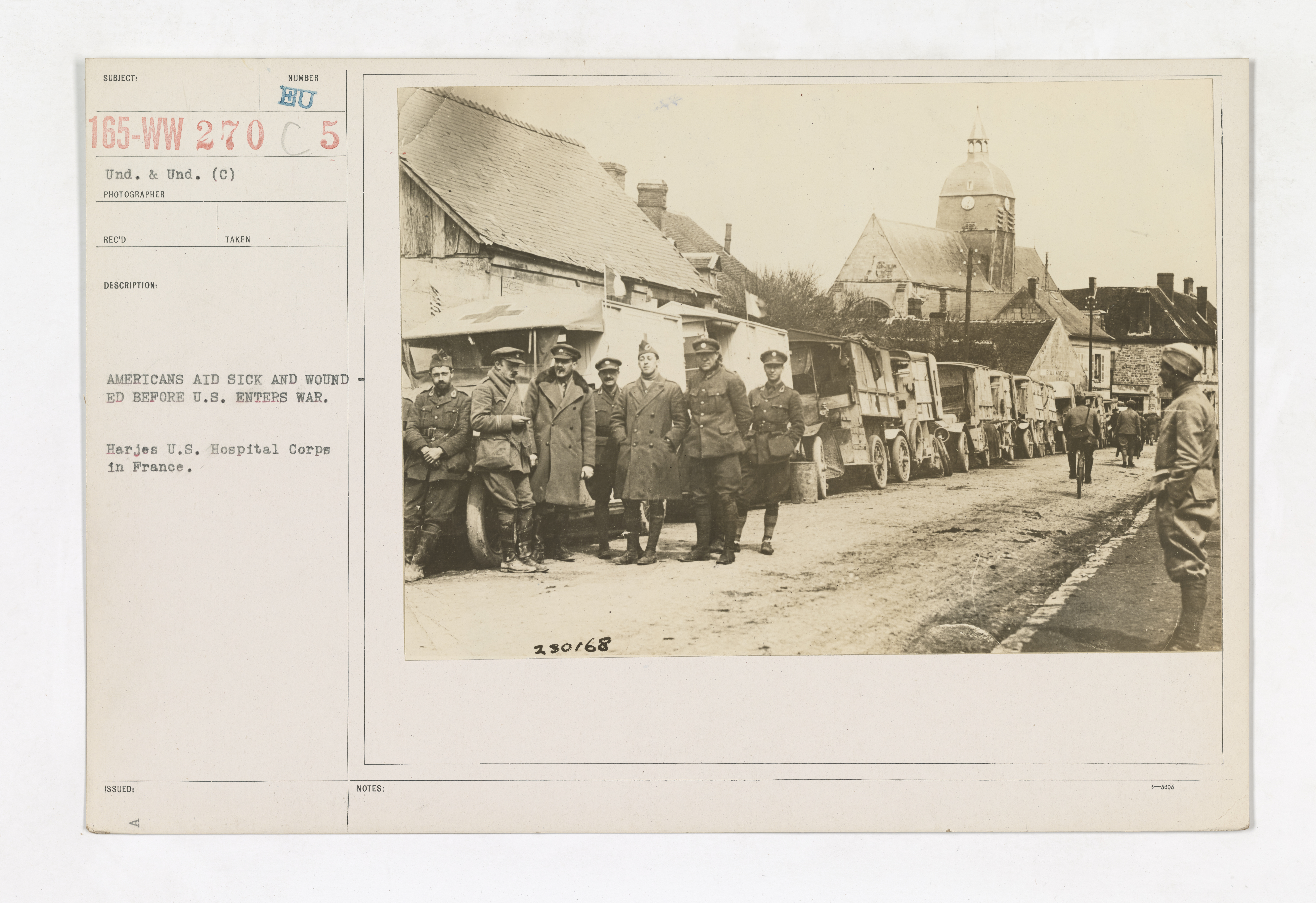 Scope and content: Photographer: Underwood and Underwood